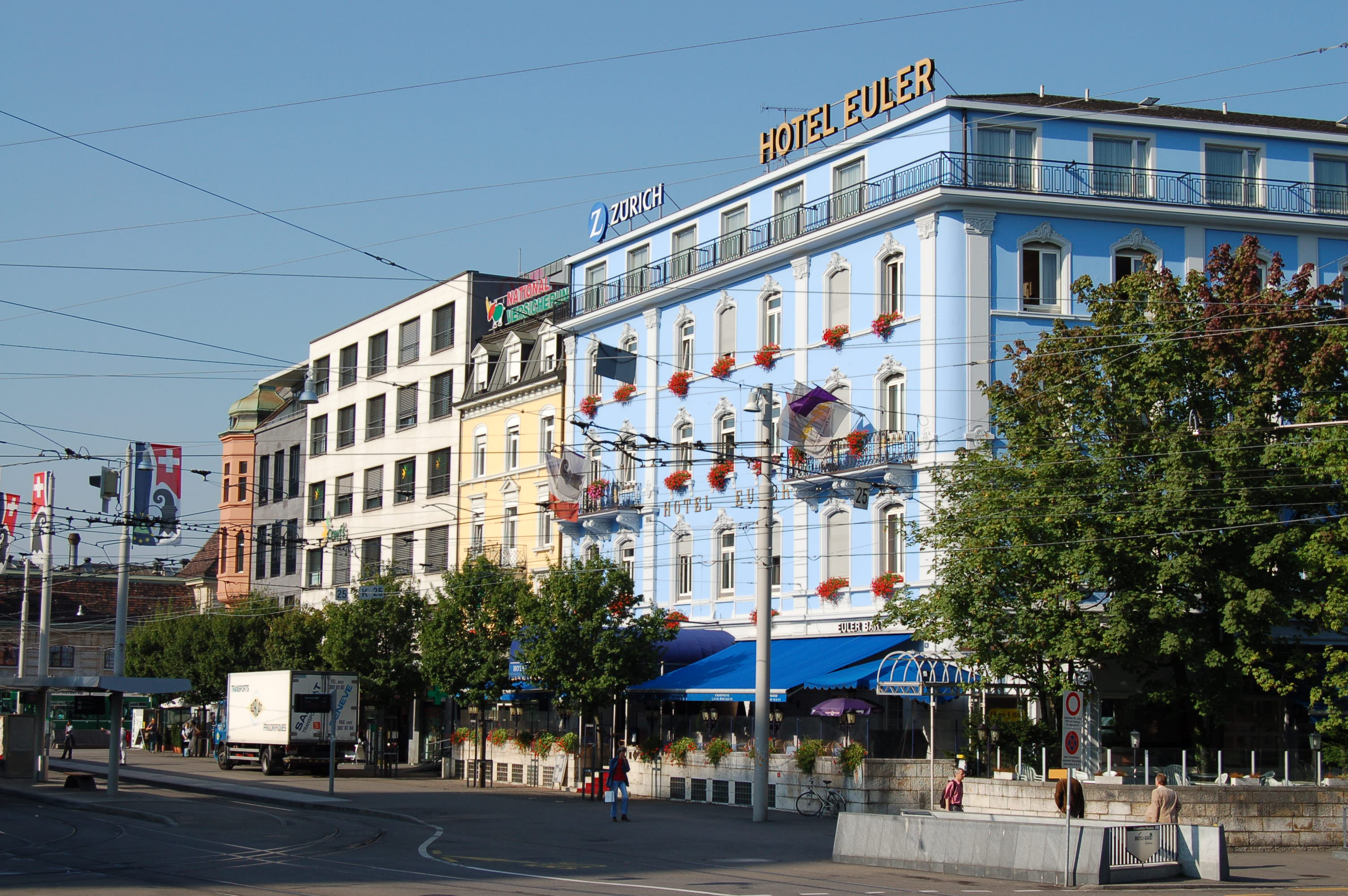 Basle, Switzerland